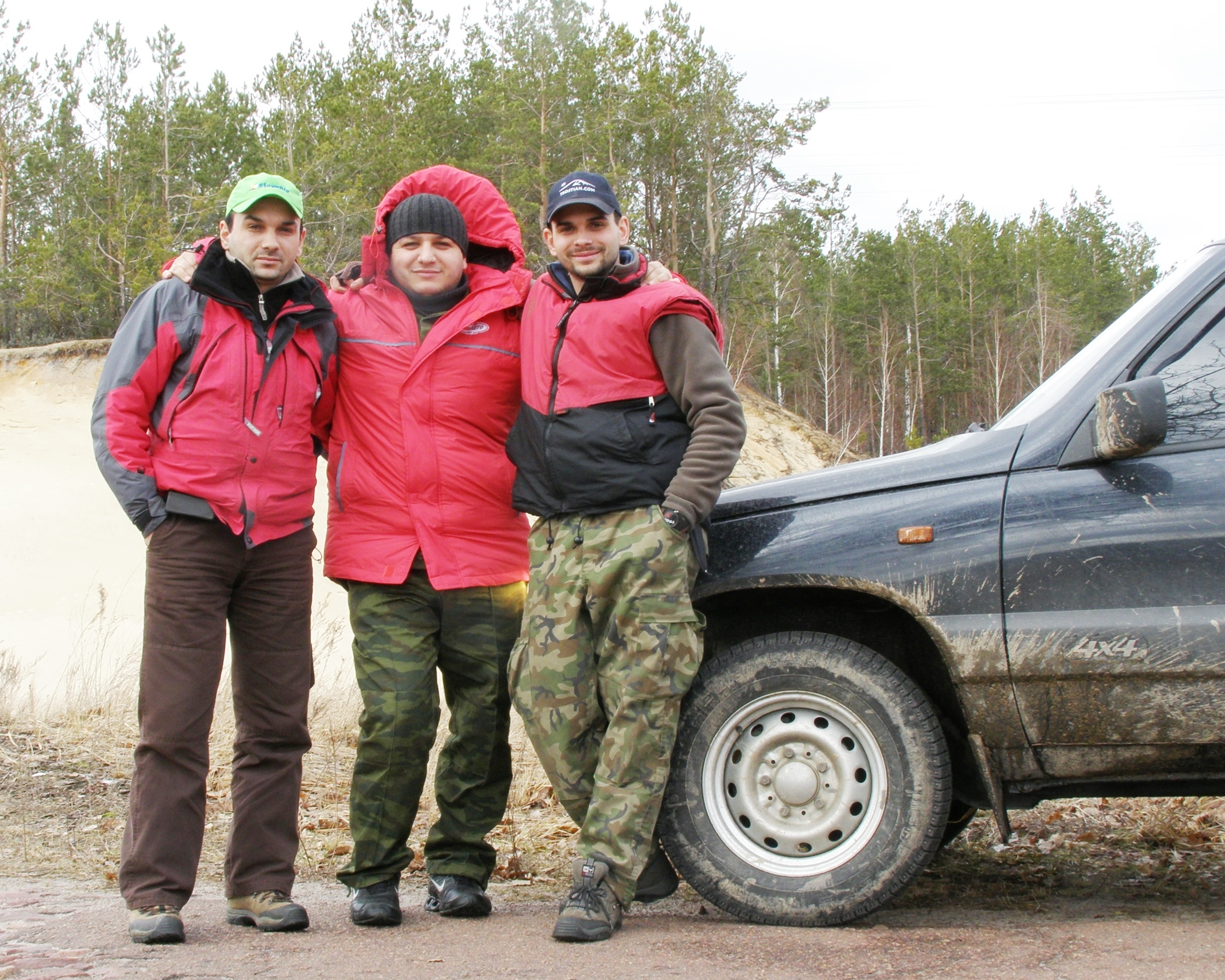 Avtotravel in UA